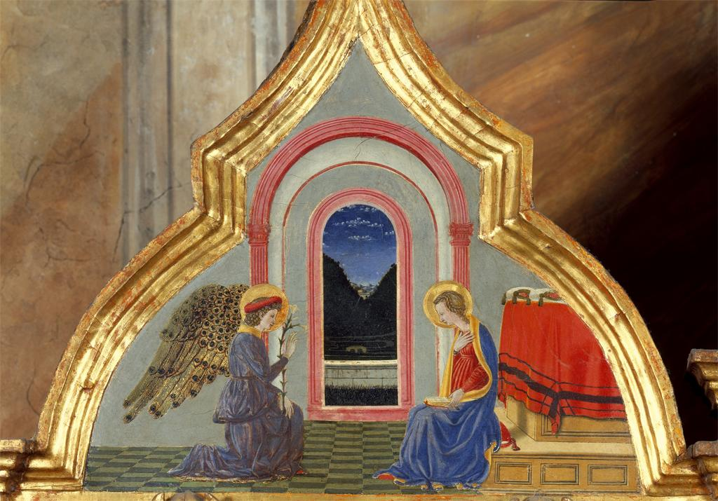 The Carrand Triptych, presumably created by Giovanni di Francesco del Cervelliera